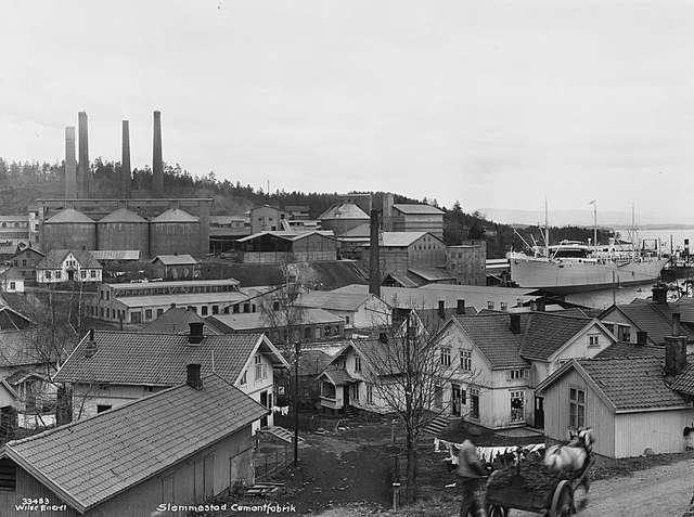 Slemmestad Cementfabrik/Slemmestad Cementfactory, 30th of April 1929, with Abraham Lincoln, ship.